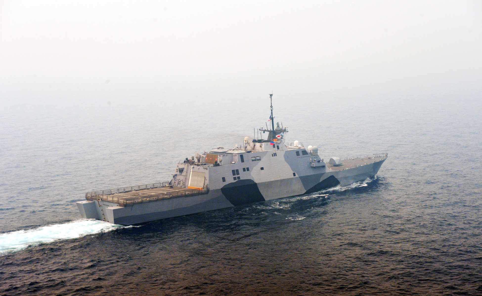 SOUTH CHINA SEA (June 19, 2013) The littoral combat ship USS Freedom (LCS 1) transits the South China Sea during a photo exercise with other U.S. and Malaysian navy ships. Freedom is in Malaysia participating in Cooperation Afloat Readiness and Training (CARAT) 2013. CARAT is a series of bilateral military exercises between the U.S. Navy and the armed forces of Bangladesh, Brunei, Cambodia, Indonesia, Malaysia, the Philippines, Singapore, Thailand and Timore Leste. (U.S. Navy photo by Mass Communication Specialist 1st Class Cassandra Thompson/Released) 130619-N-PD773-132